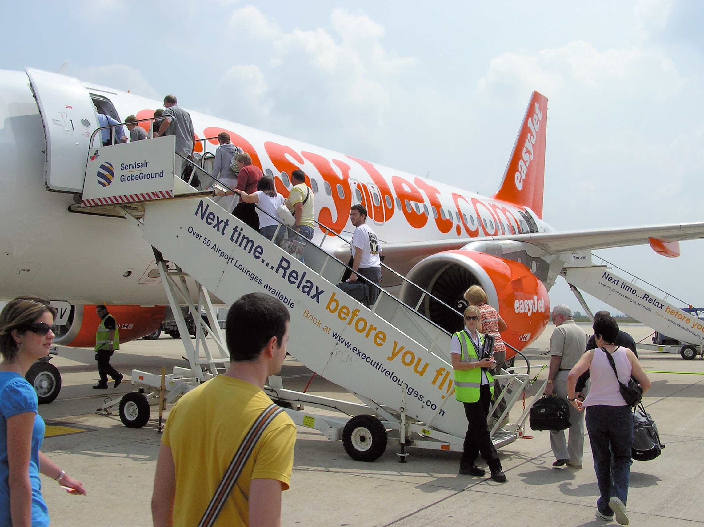 Boarding an easyJet Airbus A319 (G-EZBV) at Bristol International Airport, Bristol, England, for a 2.5 hour flight to Rome, Italy.